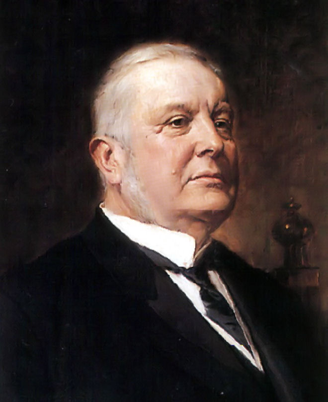 Portrait of the Hungarian conservative politician and Prime Minister Sandor Wekerle, 1911, by Gyula Benczúr.